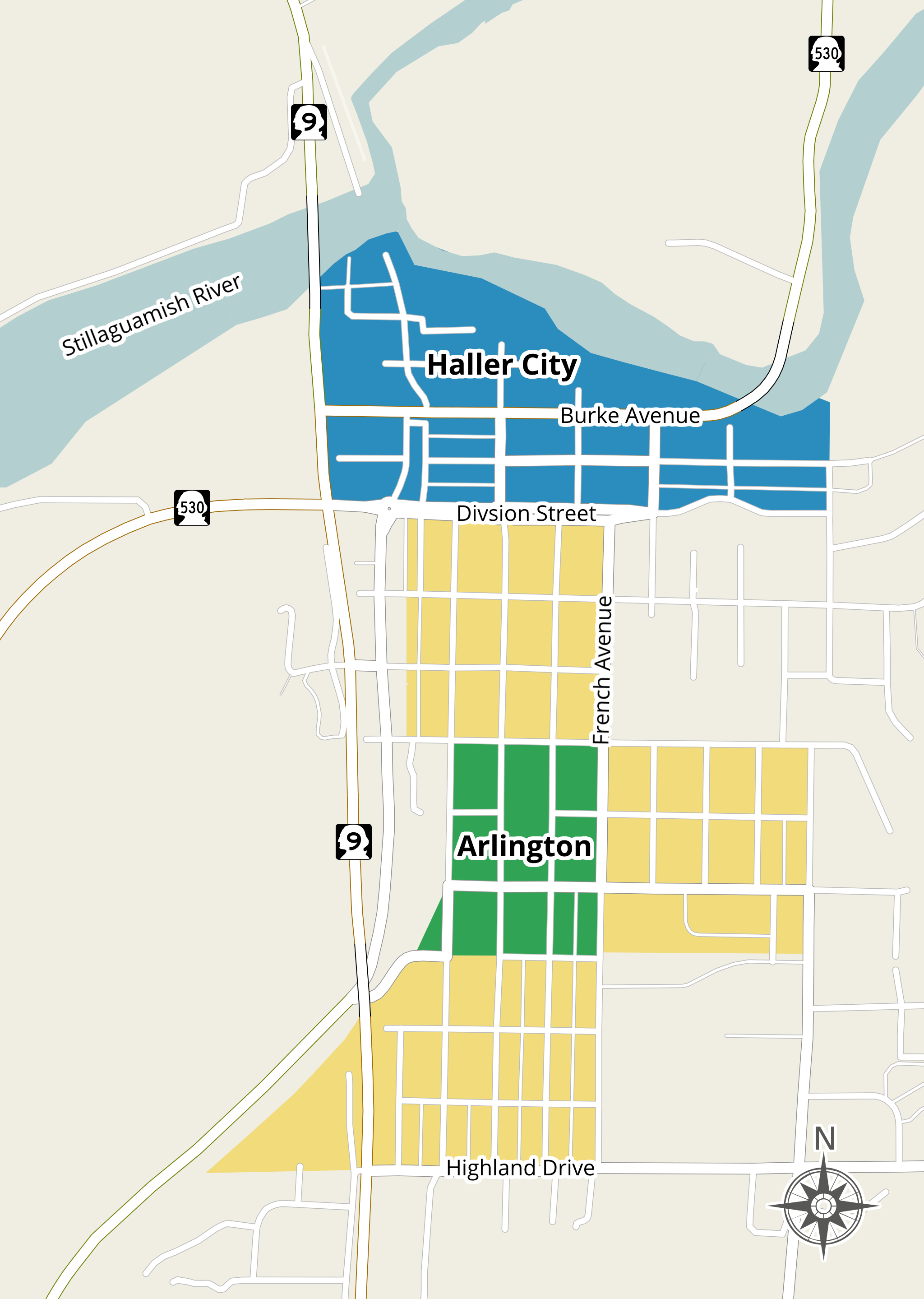 A map of downtown Arlington, Washington, with the original claims and additions of Arlington and Haller City highlighted. Legend Original claim for Arlington Claim and additions for Haller City Additions to the Town of Arlington